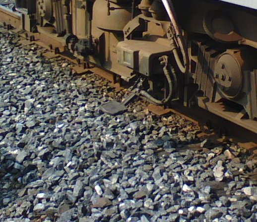 A contact shoe from the rolling stock of the Norristown High Speed Line, SEPTA. Taken at Gulph Mills Station.